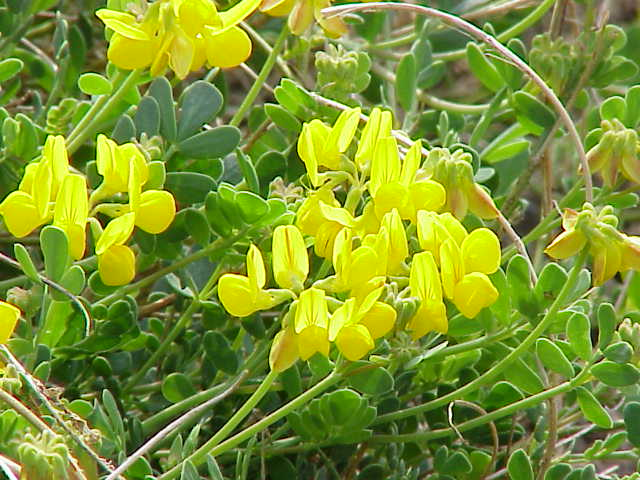 Species: Coronilla minima Family: Fabaceae Image No. 8